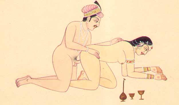 Kama Sutra Illustration